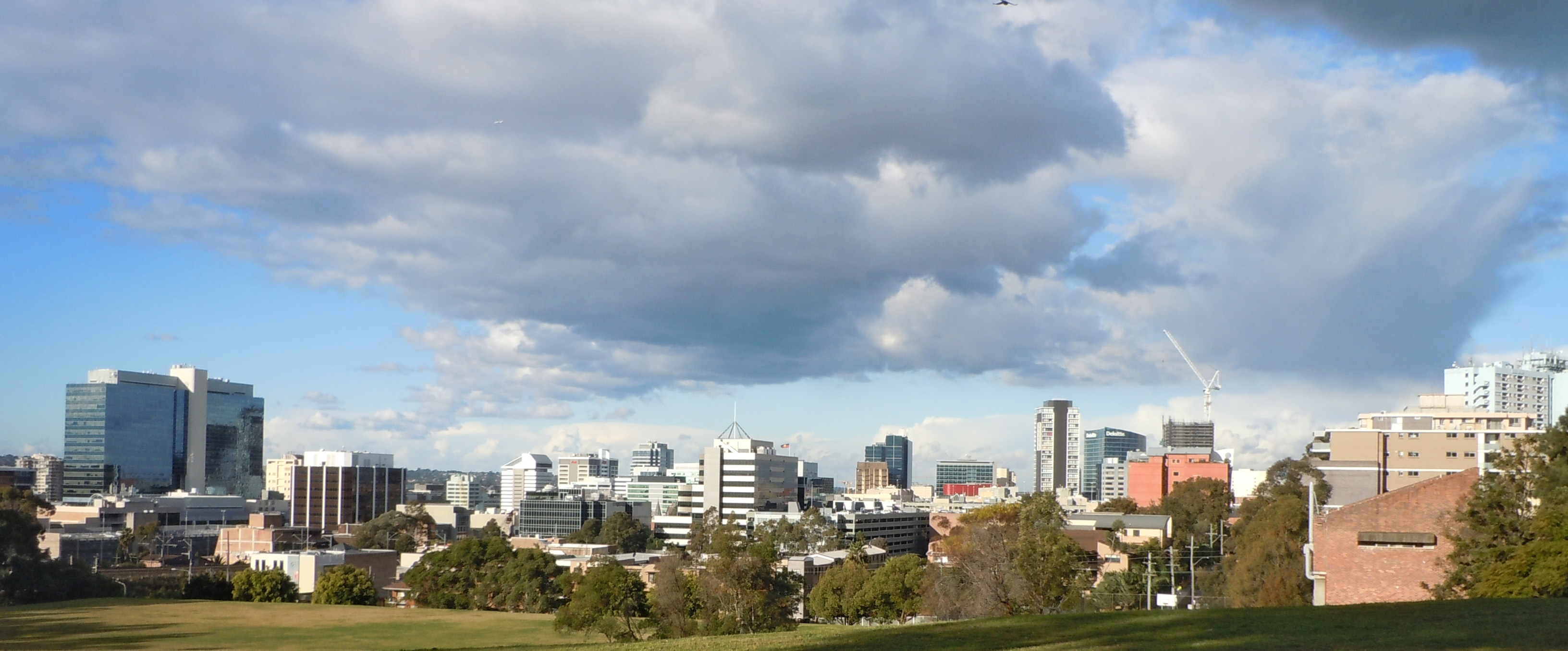 Parramatta skyline from the west. August 2012.